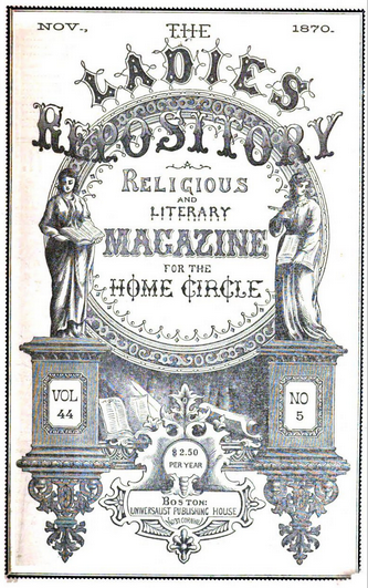 The Ladies' Repository, Religious and Literary Magazine for the Home Circle